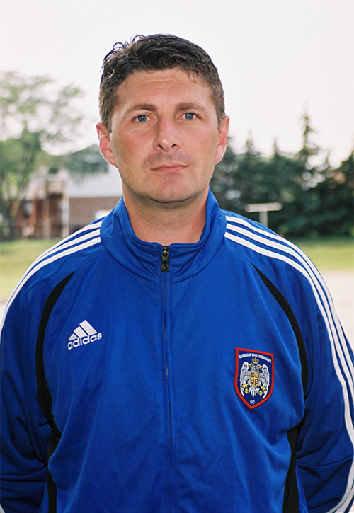 Stevan Mojsilović, assistant coach of the Serbian White Eagles in 2006.